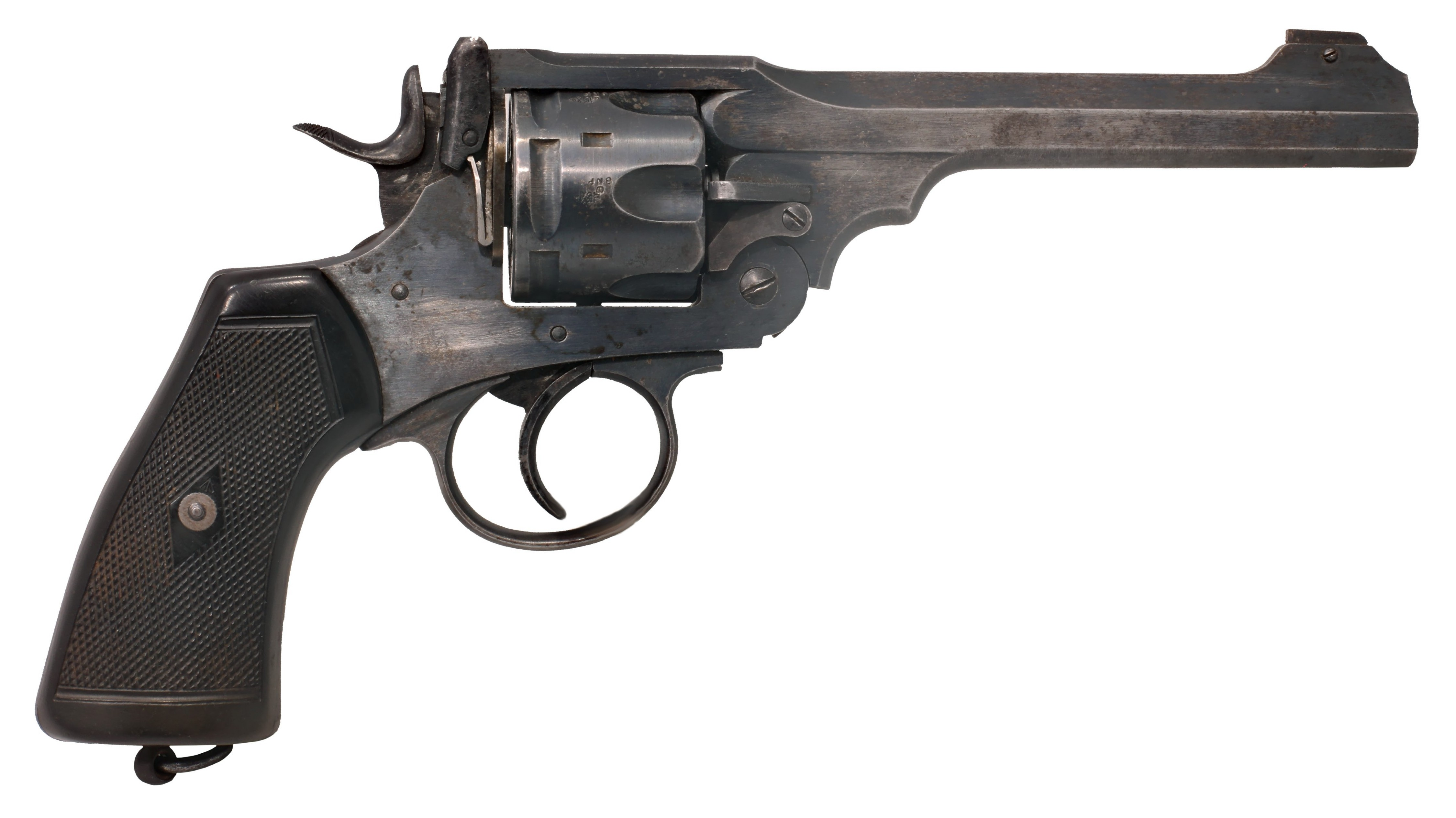 Webley & Scott Mk VI. Caliber .455 Collection Paul Regnier, Lausanne, Switzerland